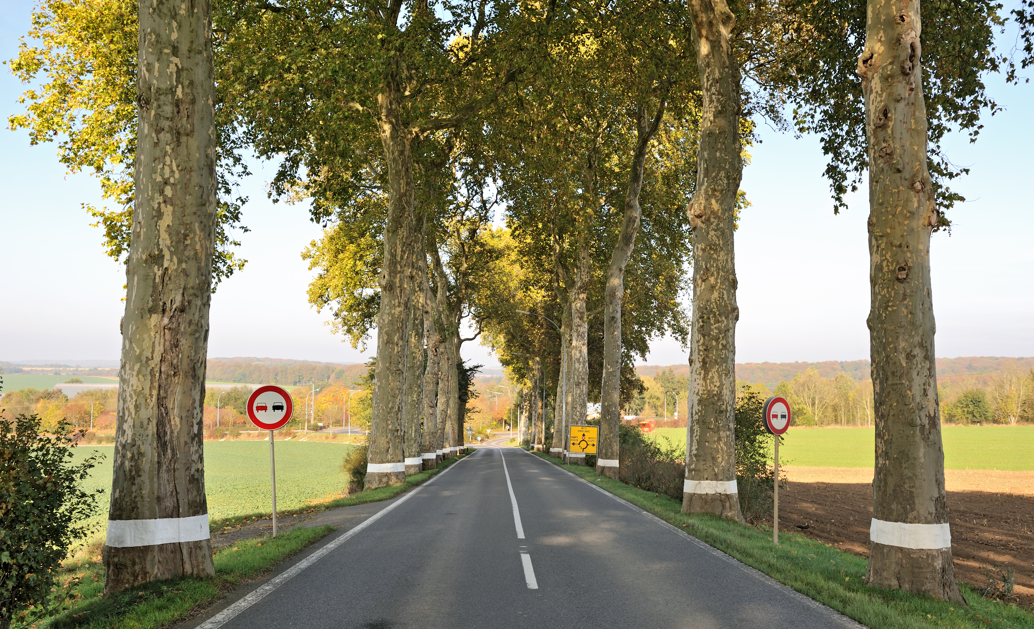 Luxembourg: Trunk road N12 between Kopstal and Dondelange. The traffic circle at Quatre-Vents is seen in the background. The trees are listed as Remarkable trees in Luxembourg.